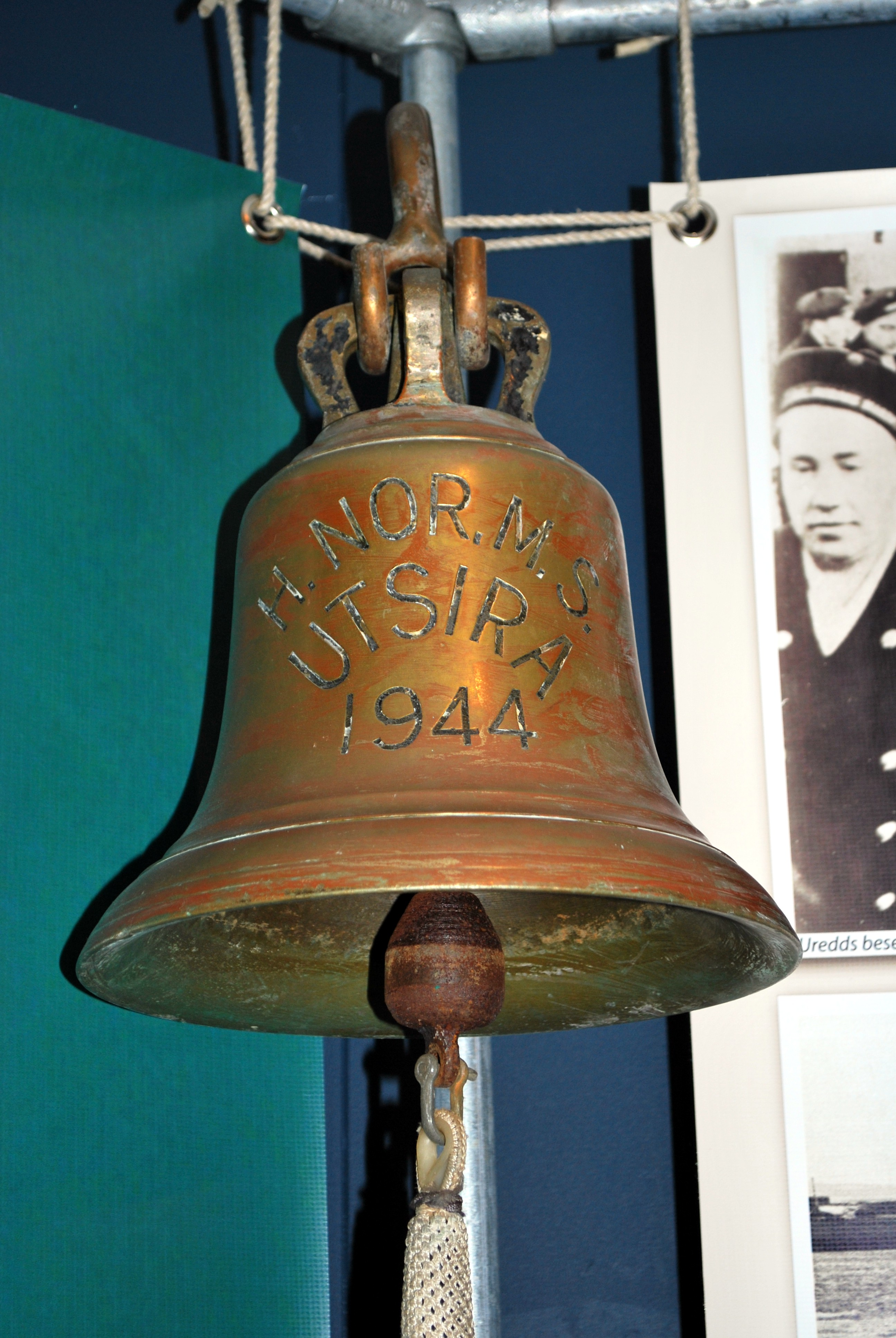 Ship's bell of «Utsira» (P 85), Norwegian World War II submarine, 1944.